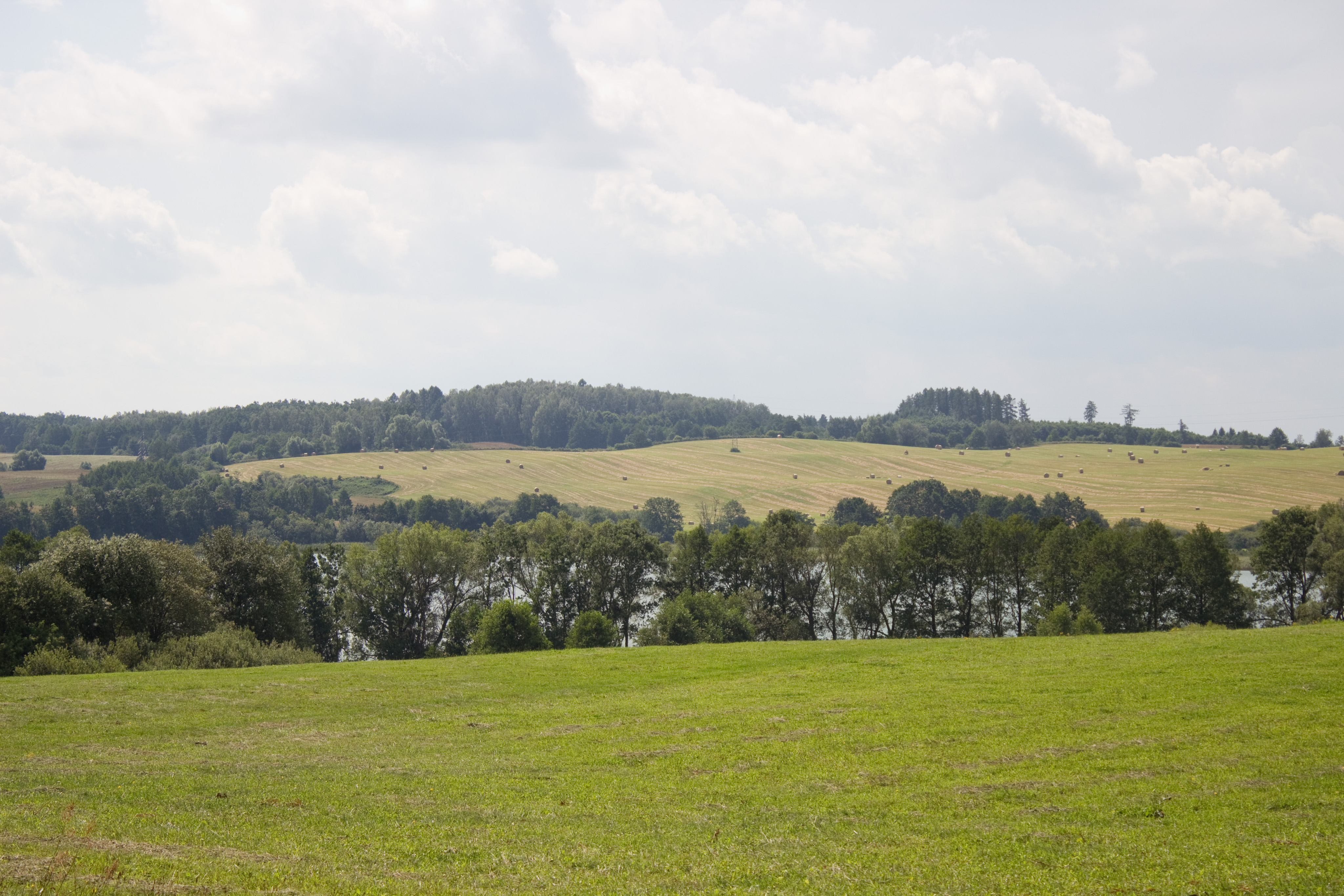 Wyszembork, gmina Mrągowo, powiat mrągowski, Warmian-Masurian Voivodeship